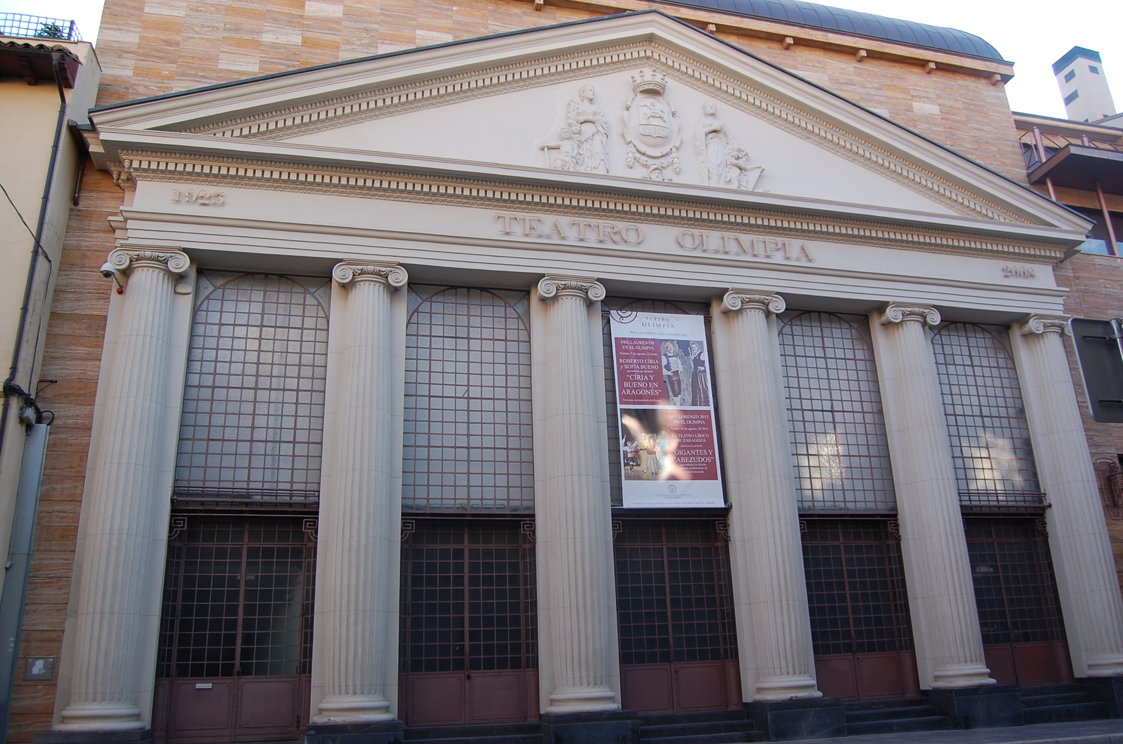 Walon: Teyåte a Wesca